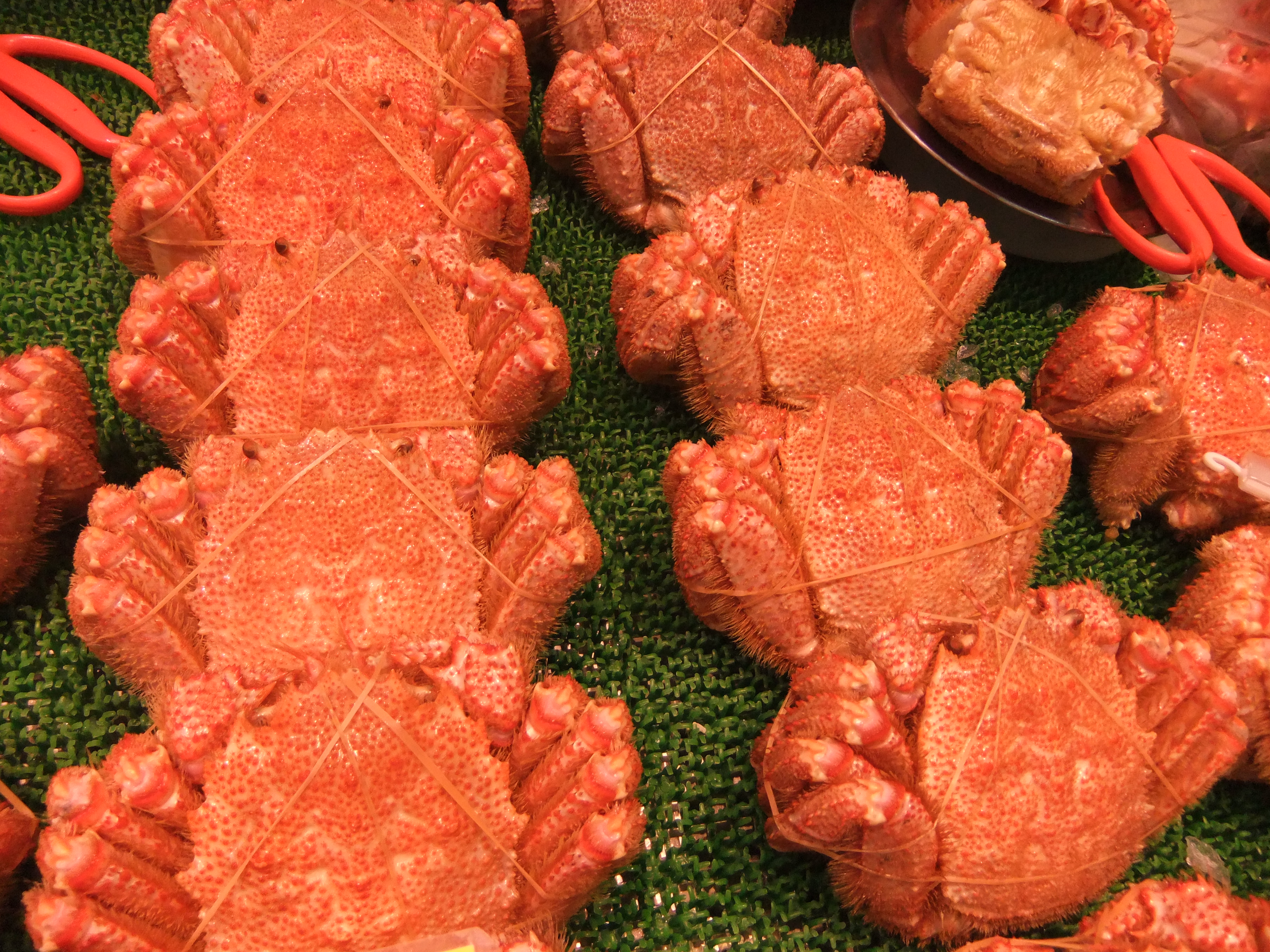 Horsehair crab